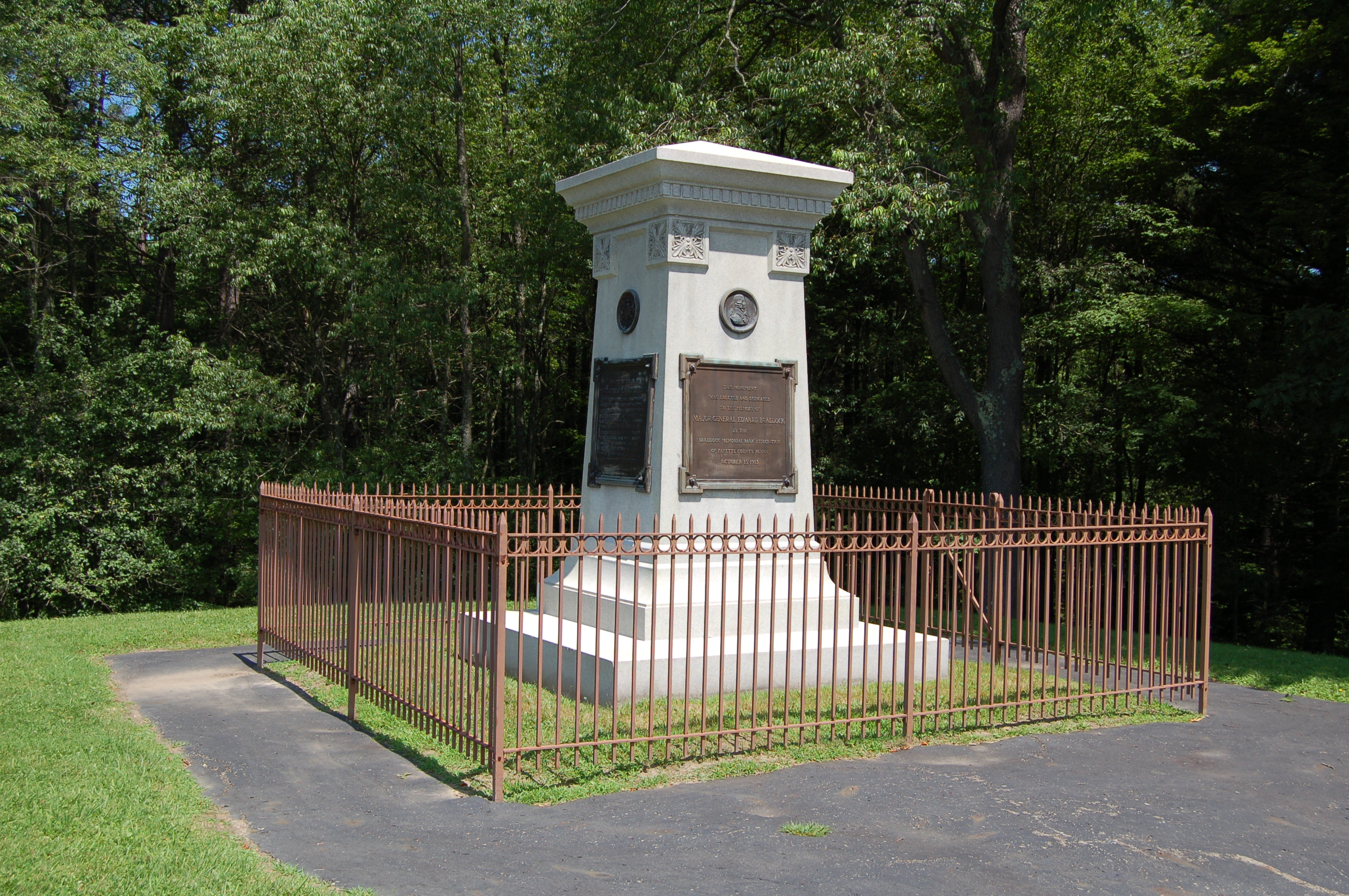 Braddock's Grave monument